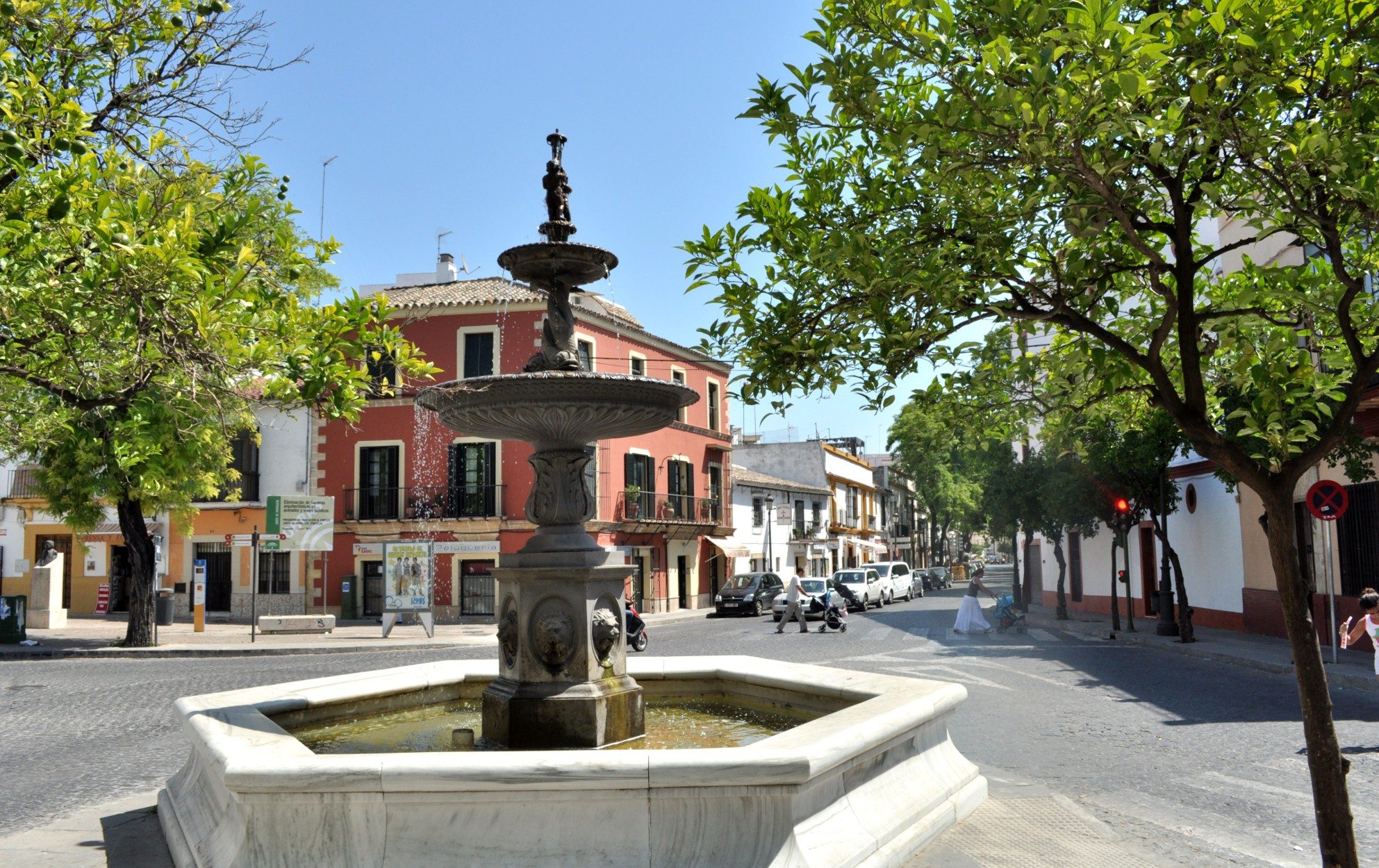 St James Square, Jerez